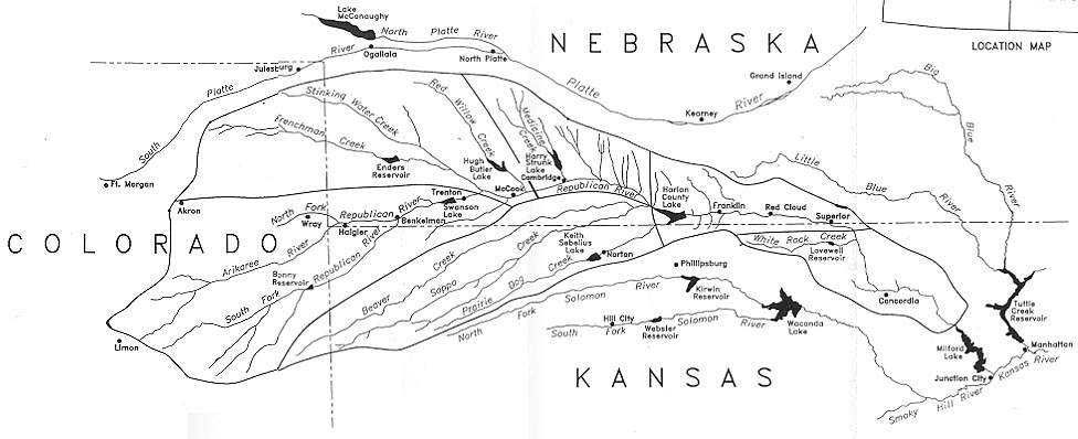 Republican River map from the Bureau of Reclamation, U.S. Department of the Interior.